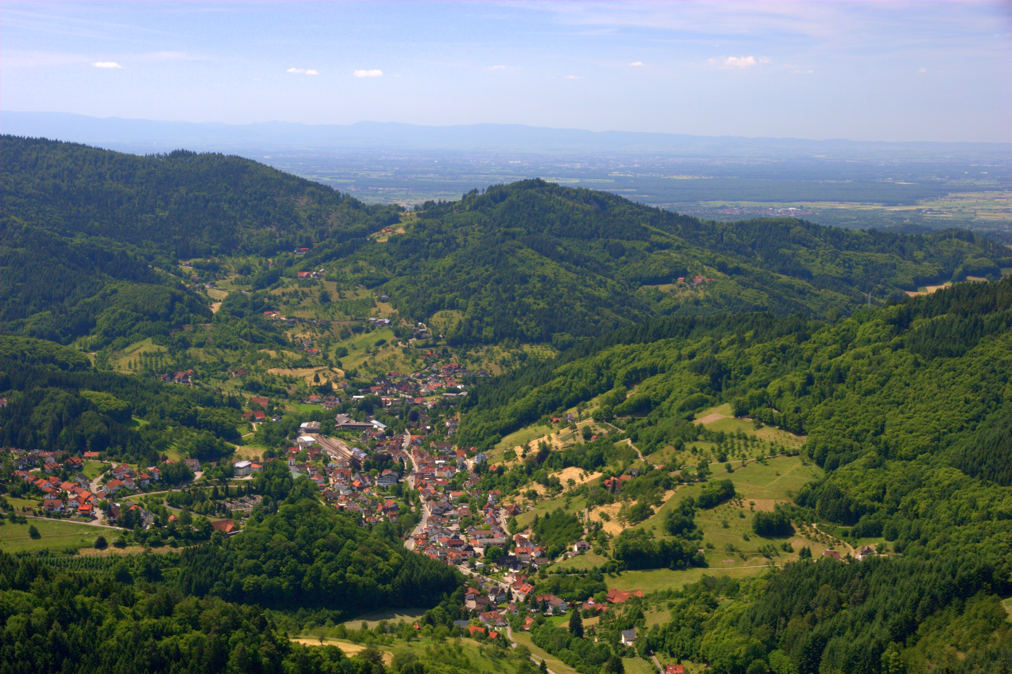 View of Öttenhöfen in the Northern Black Forest with the Upper Rhine Plain and the Vosges Mountains in the backgrouund.